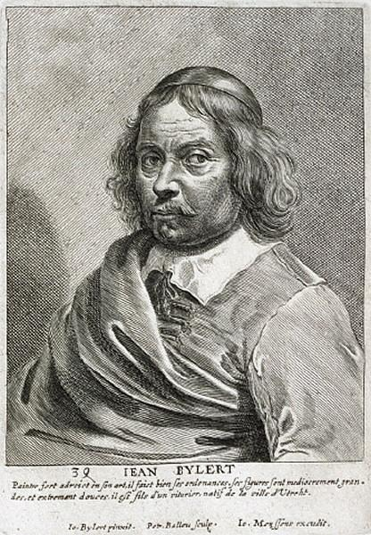 Self-portrait dutch painter Jan Van Bijlert, engraving, published 1649.